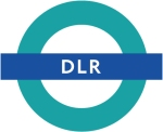 Logotipo de Docklands Light Railway (DLR)